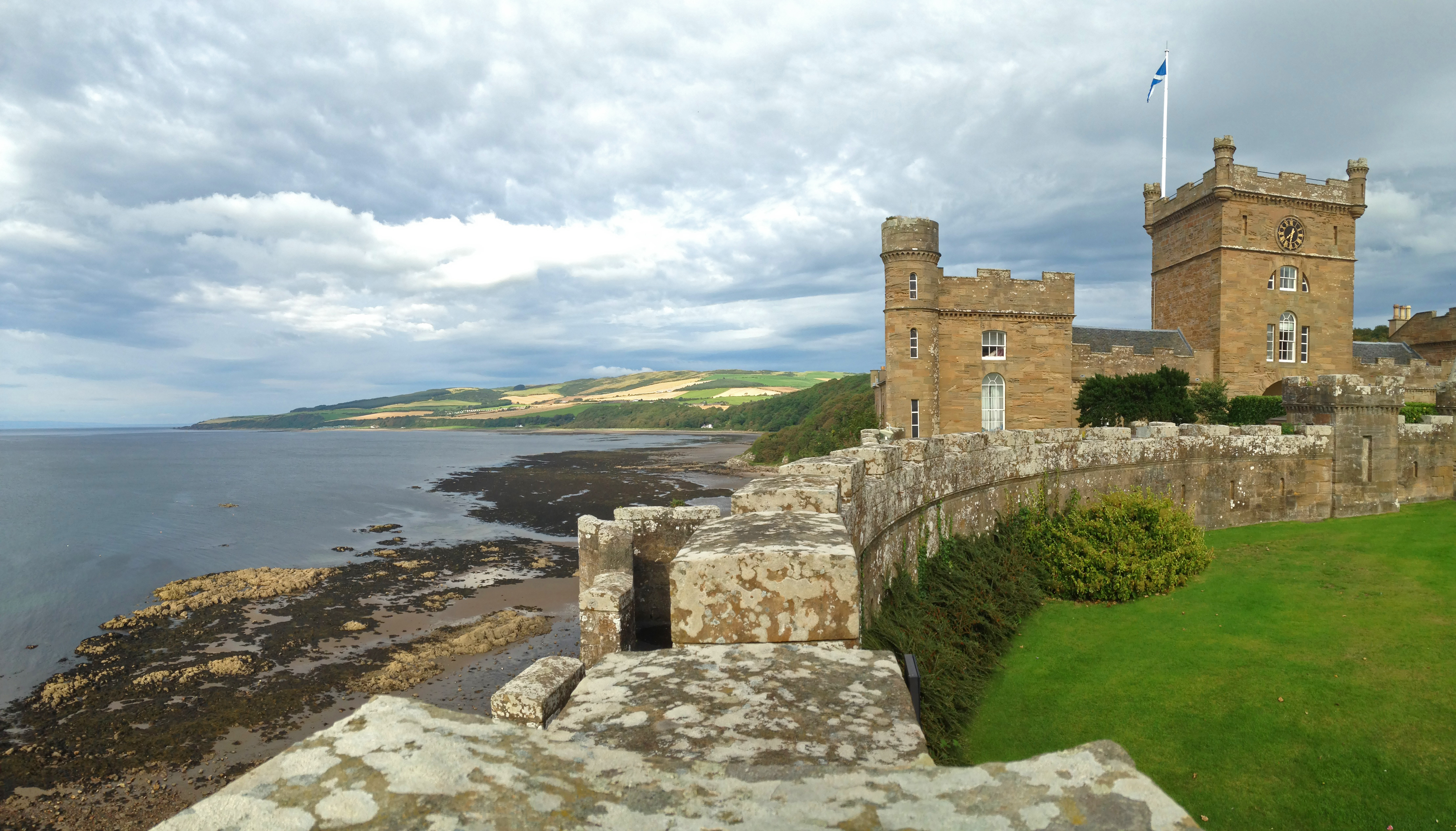 Famous landscape from the clock tower's courtyard